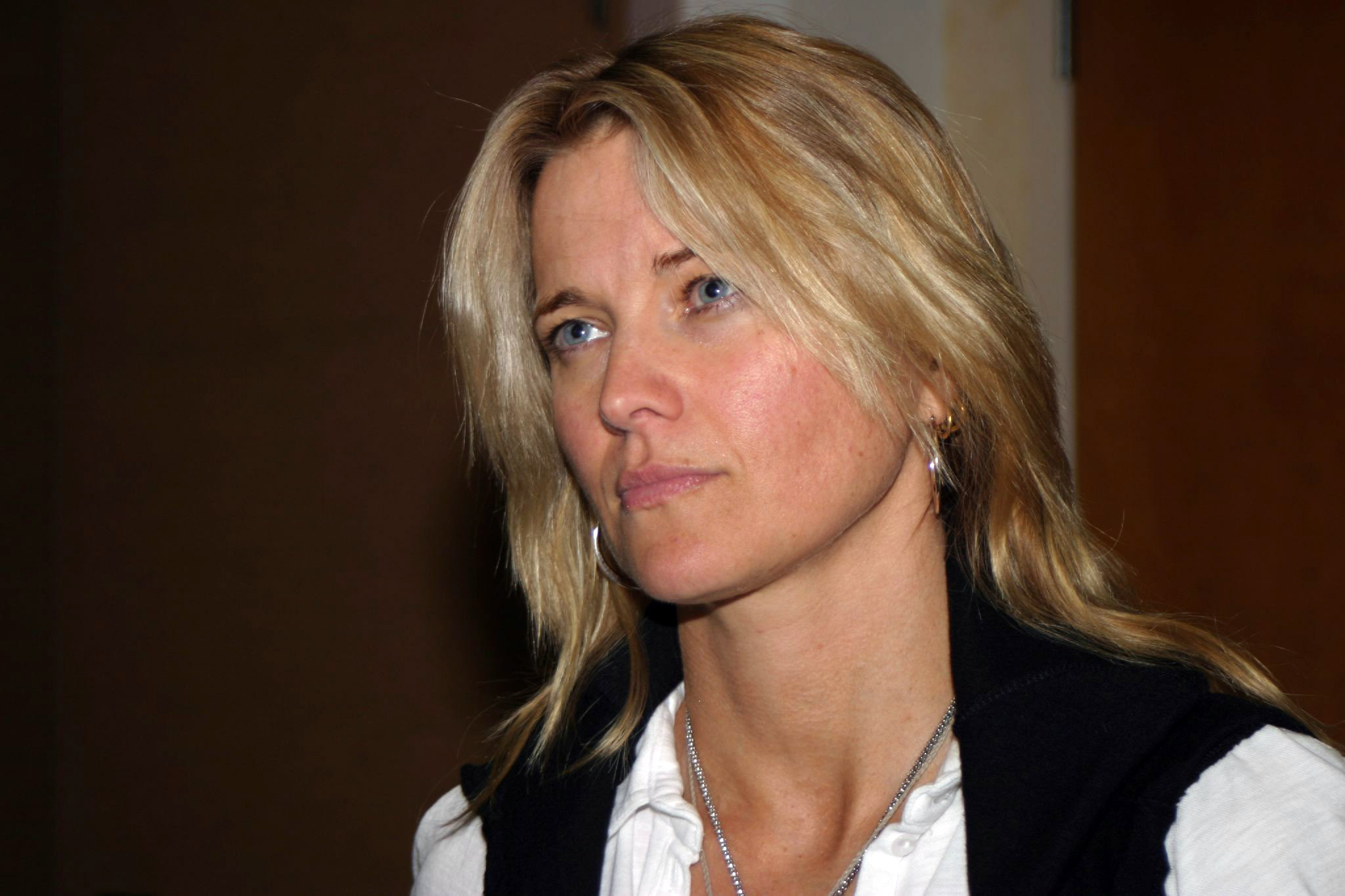 New Zealand actress Lucy Lawless.